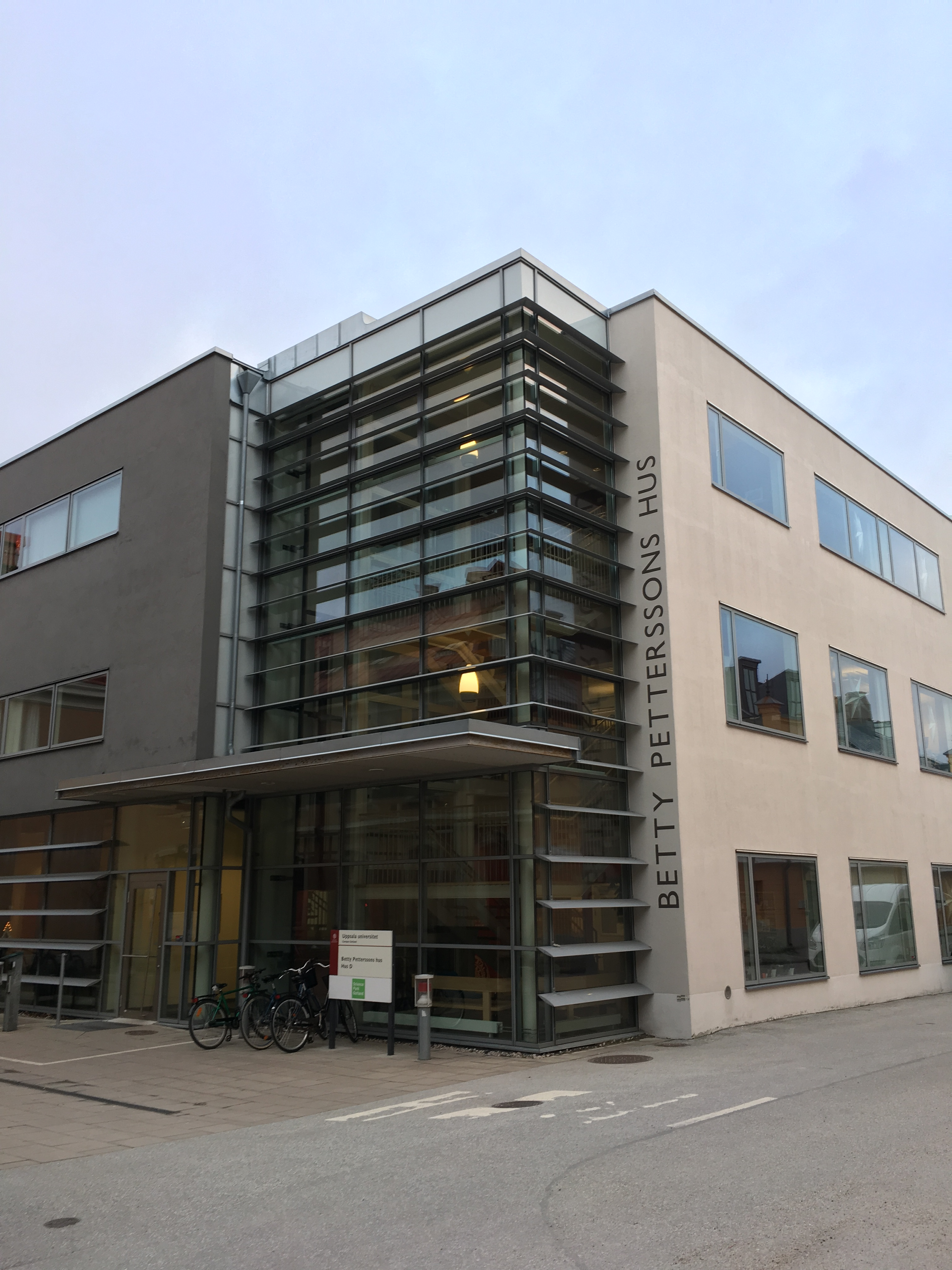 The "Betty Pettersson house" also called house D (D-huset) in Visby at Campus Gotland, Sweden.